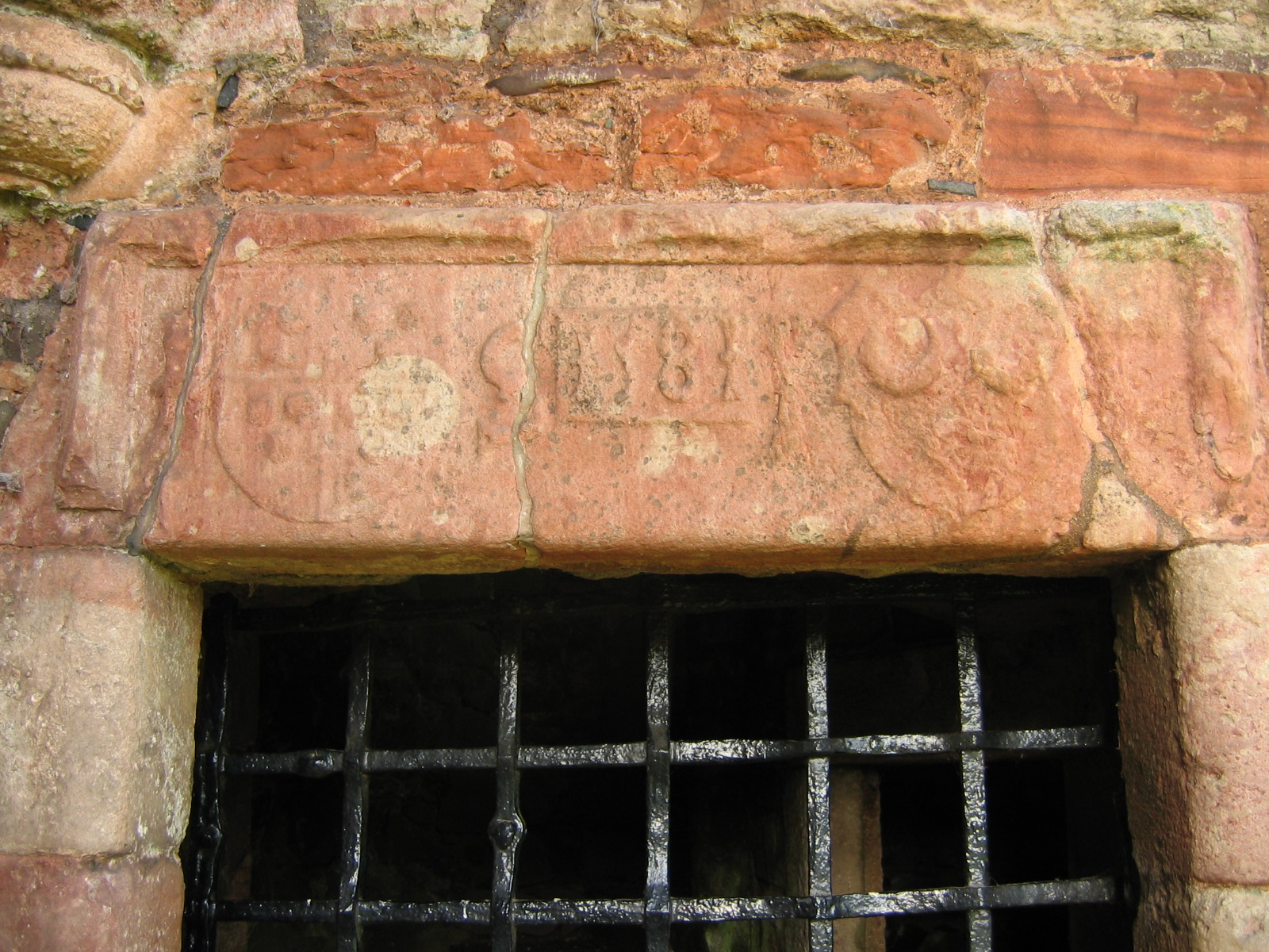 Greenknowe Tower, Scottish Borders. Lintel with inscription: IS for James Seton, IE for Janet Edmonstone, his wife, with their coats of arms and construction date of 1581.